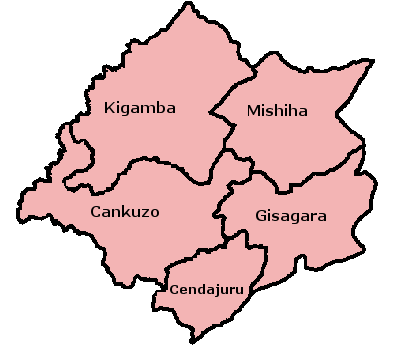 Map of the Communes of Cankuzo Province; created with the GIMP. Made by User:Acntx.